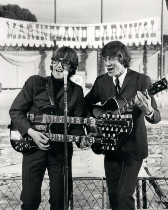 Publicity photo of Chad and Jeremy from a television special at Marineland aired by CBS Television.